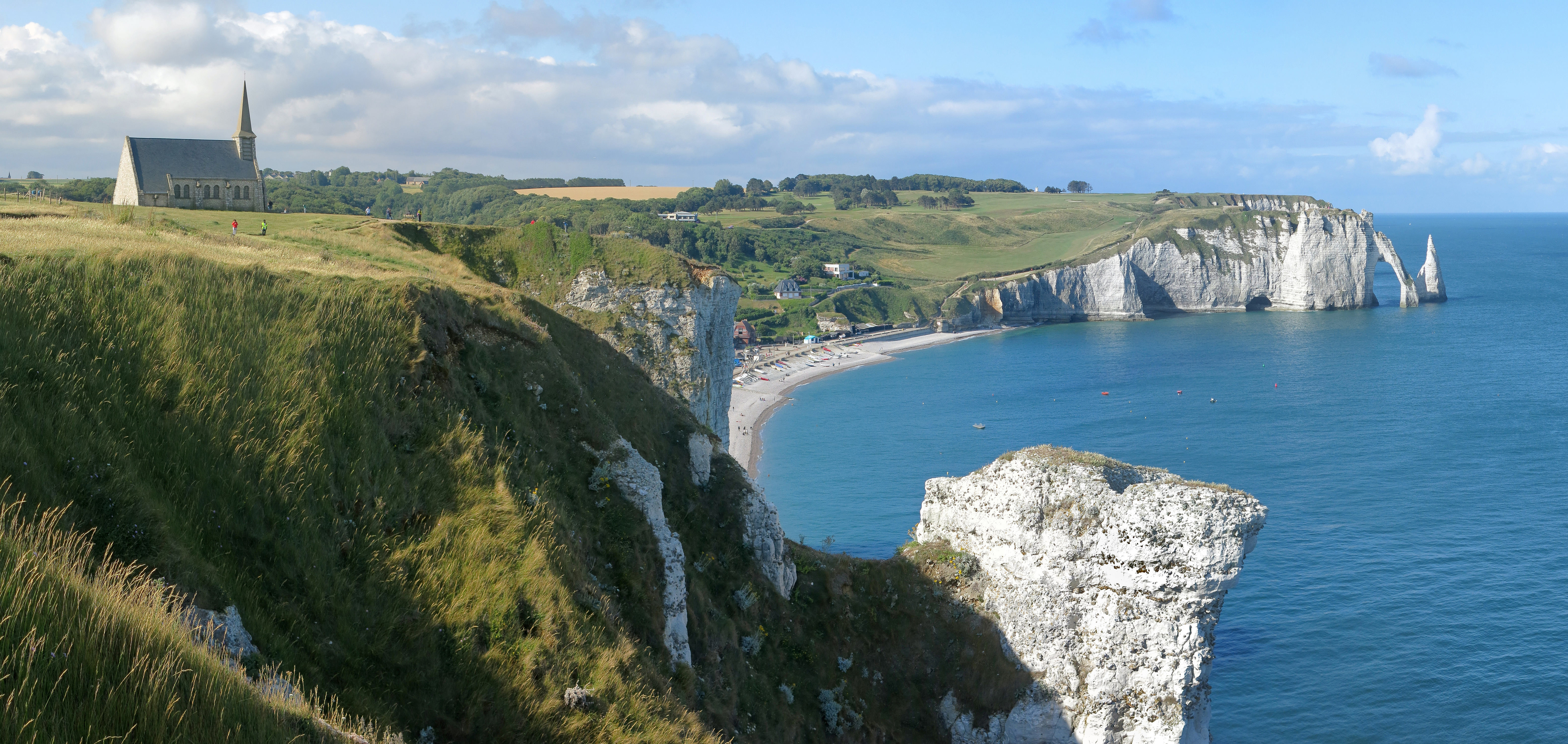 The Notre-Dame-de-la-Garde chapel and the cliffs of Étretat